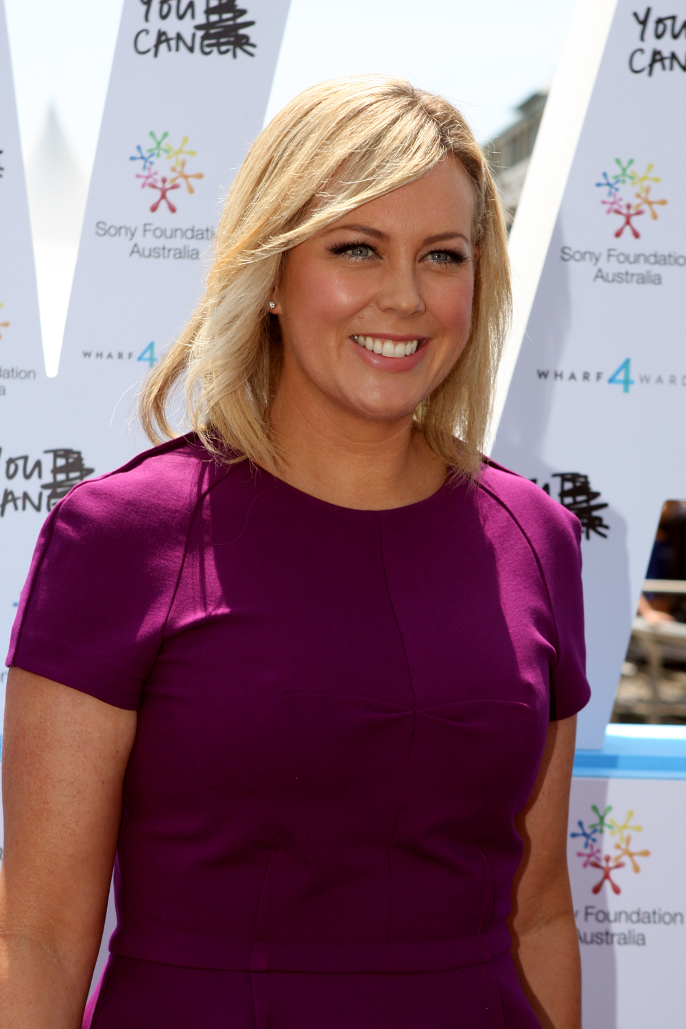 Sydney stars come out in force for Sony Foundation's Youth Cancer campaign